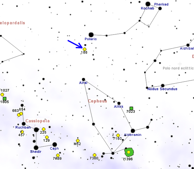 Map of NGC 188